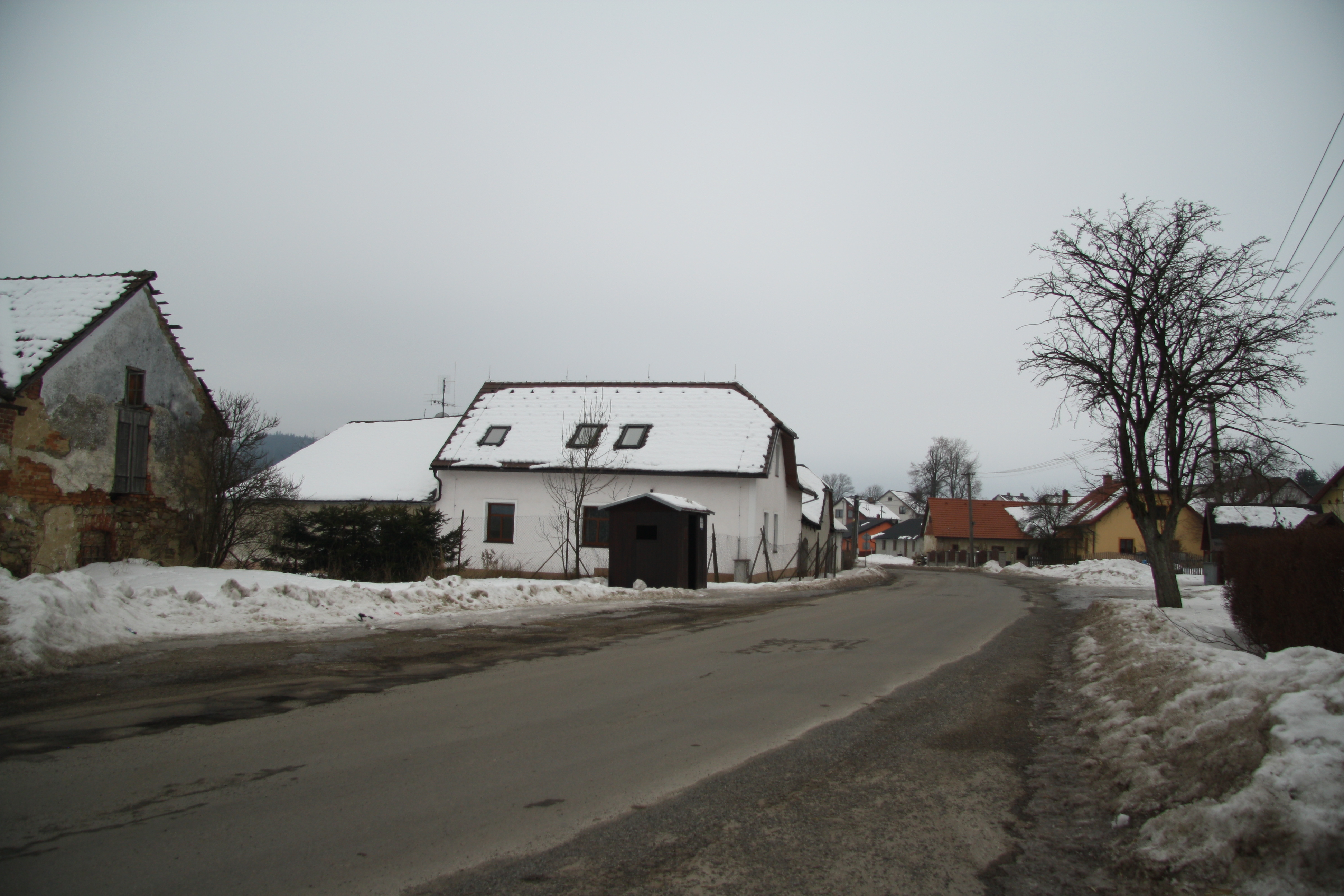 Down part of Dušejov, Jihlava District.